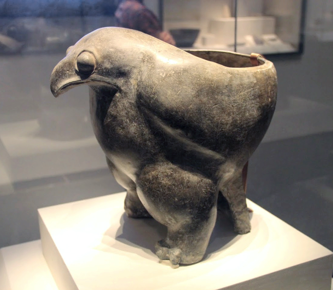 Gray earthenweare raptor-shaped vessel (zun type), Yangshao culture, Miaodigou type, 36 cm tall. Taipingzhuang, Huaxian county, Shaanxi province 1975. National Museum of China, Beijing